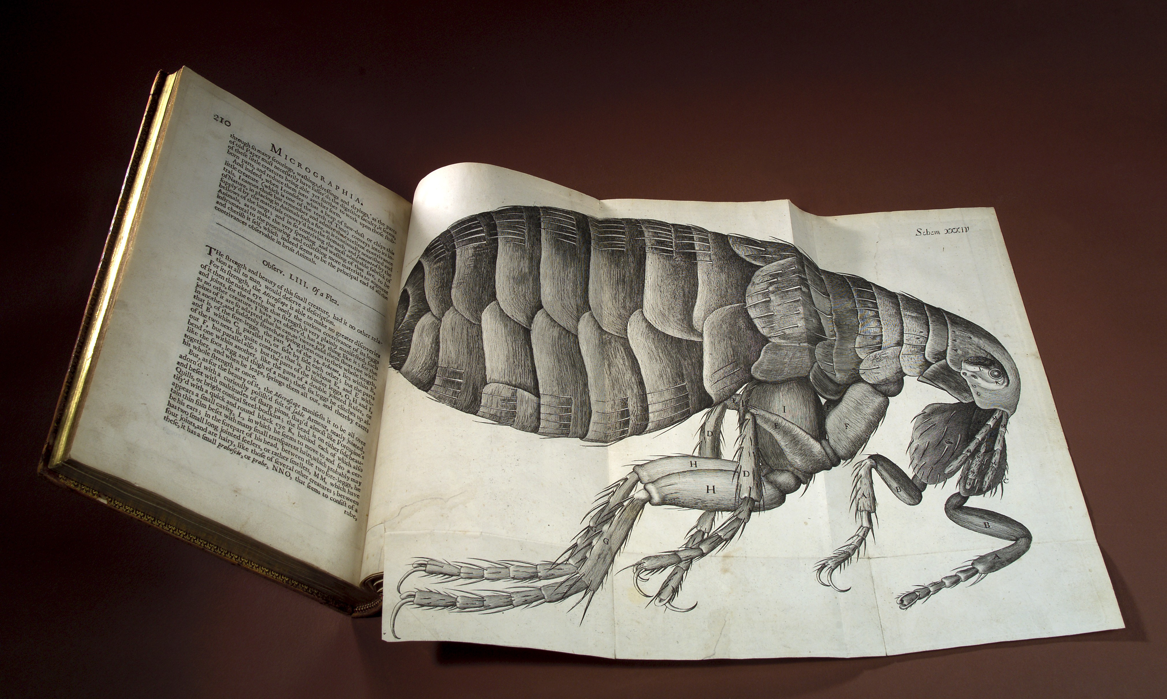 Engraving of a flea; Schem.XXIV. 'Micrographia', published in 1665, is the result of detailed observations by Robert Hooke using the recently invented microscope. The publication was funded by The Royal Society and the popularity of the book helped further the society's image and mission of being 'the' scientifically progressive organization of London. The book was dedicated to Charles II, patron of the Royal Society. Micrographia: or some physiological descriptions of minute bodies made by magnifying glasses with observations and Inquiries thereupon, By Robert hooke, Fellow of the Royal Society, 1665. 'Micrographia' also focused attention on the miniature world, capturing the public's imagination in a radically new way. This impact is illustrated by Samuel Pepys' reaction upon completing the tome: 'the most ingenious book that I ever read in my life.' Hooke most Rare Books Keywords: Natural History; Microscopy